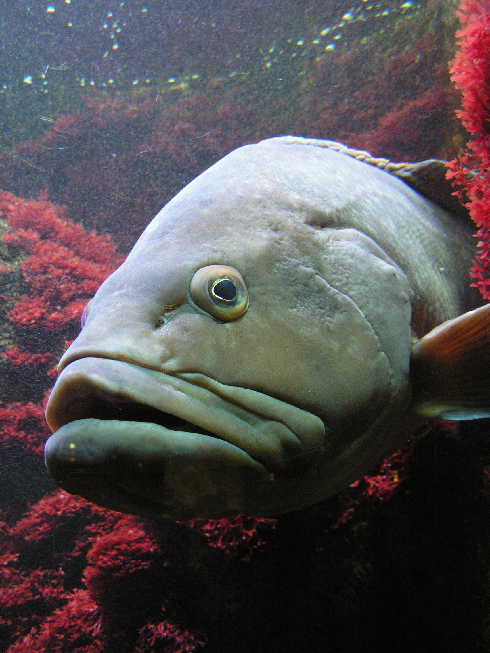 Dusky Grouper, Epinephelus Guaza/Epinephelus Marginatus, Photographed in Wilhelma Zoo (Stuttgart)